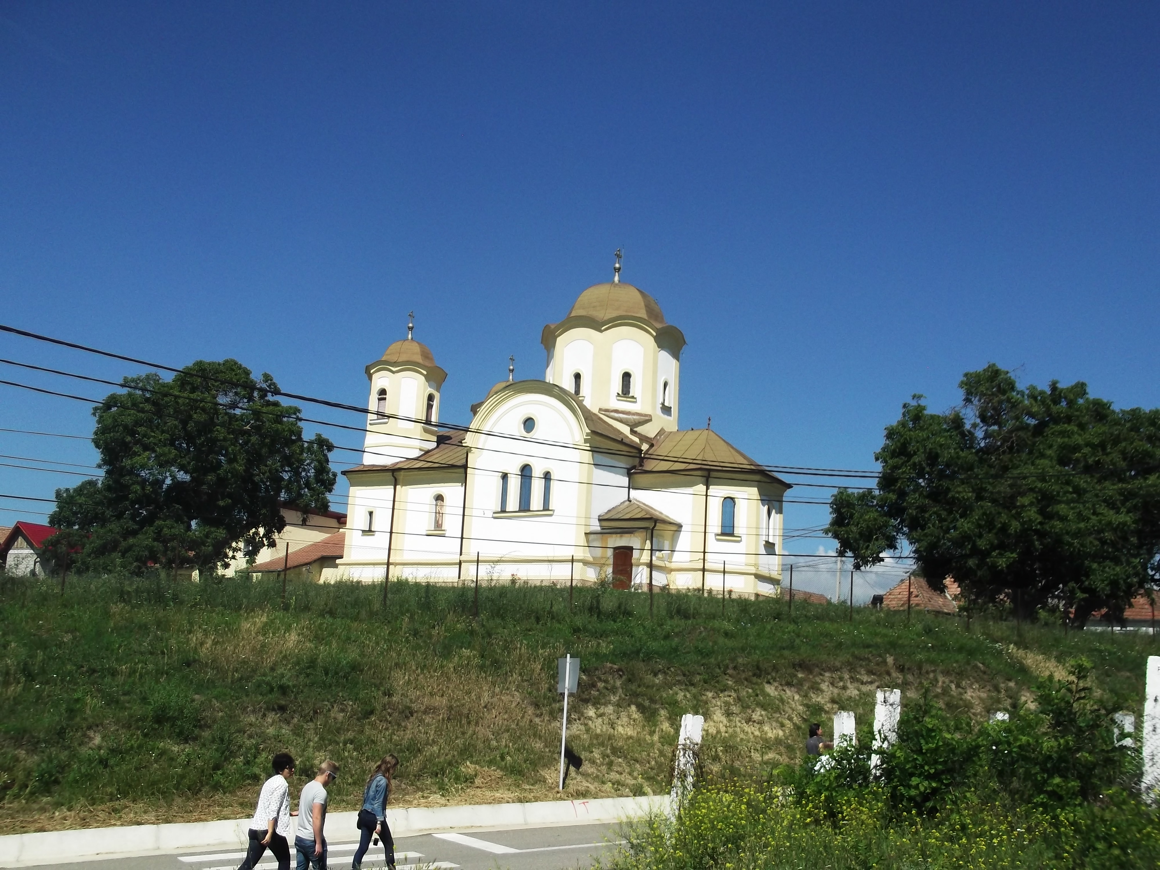 The new Orthodoxian Church in Santimbru, Alba